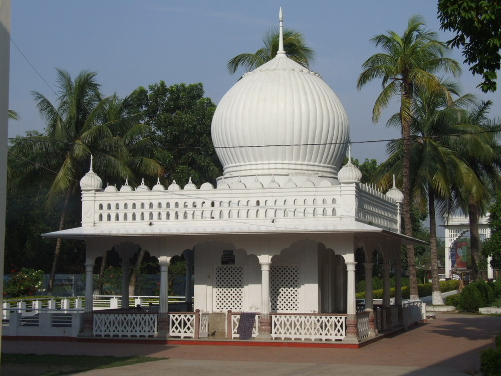 Lalon Shah's tomb and mazar in Kushtia, Bangladesh